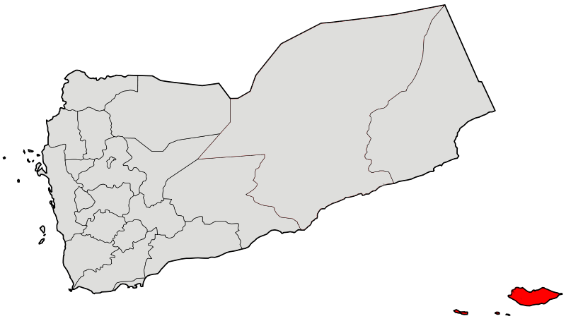 Location of the governorate of Soctra, in Yemen